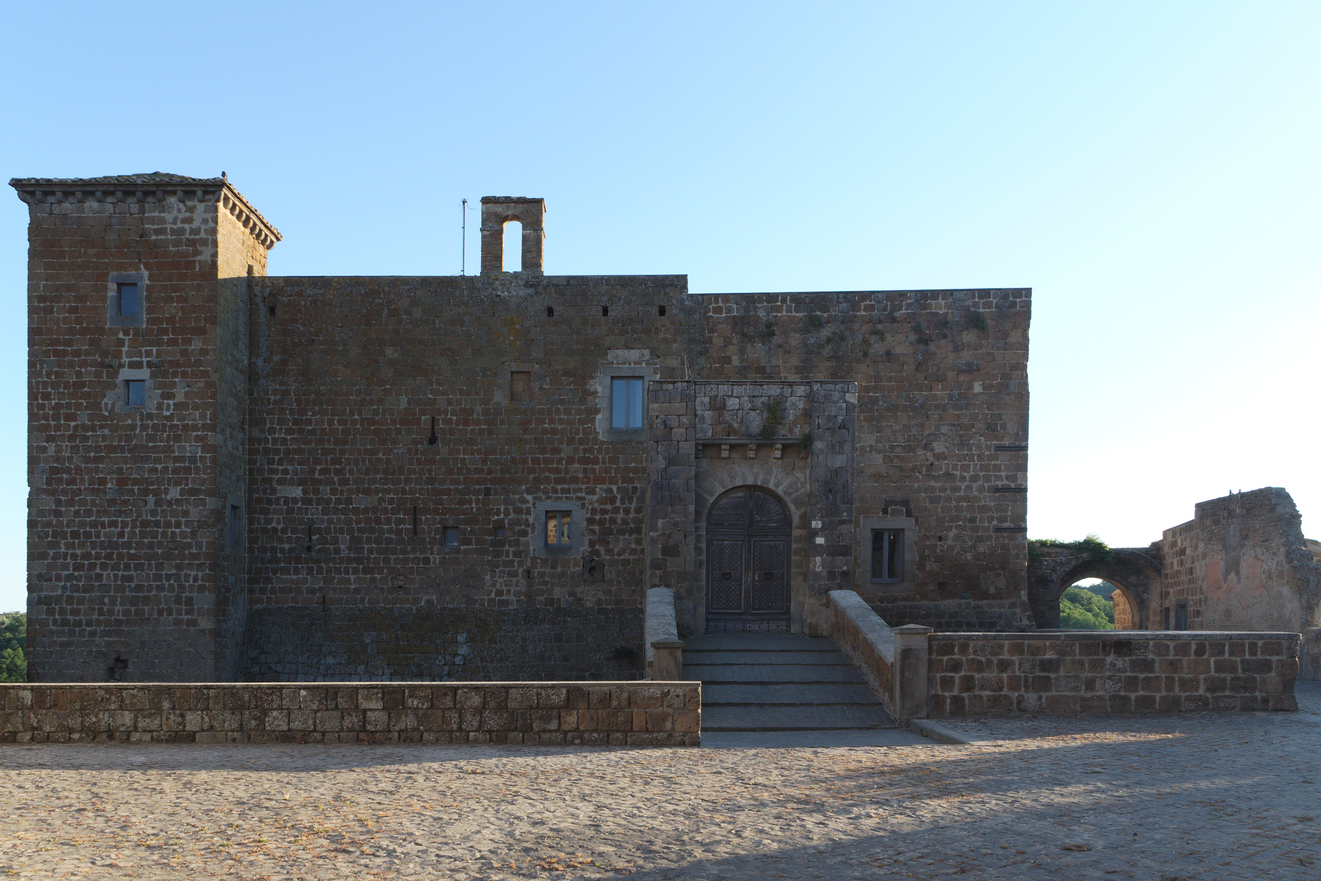 Orsini Castle in Celleno (VT, Italy).